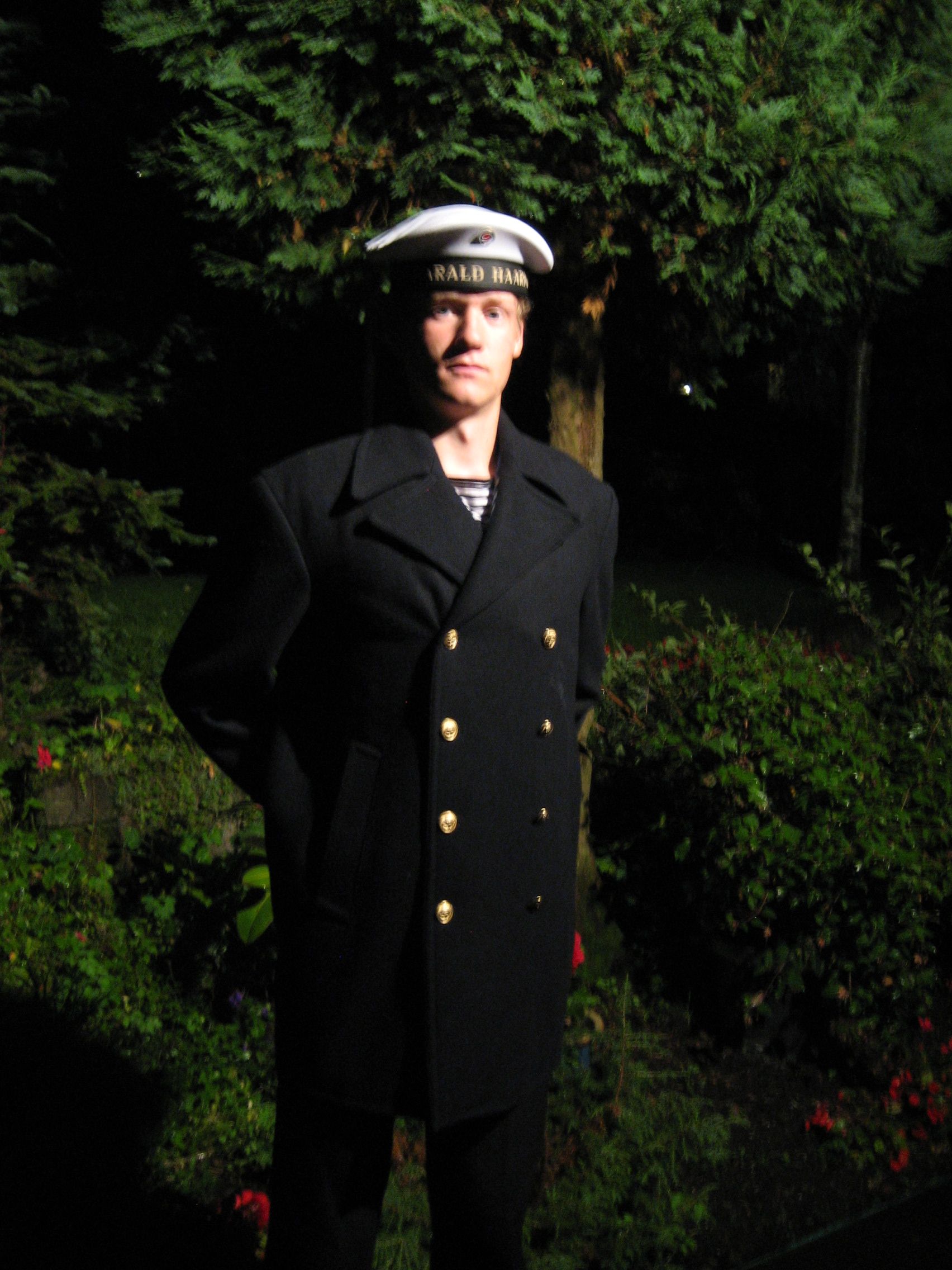 With Sea Jacket. Uniform from the Royal Norwegian Navy